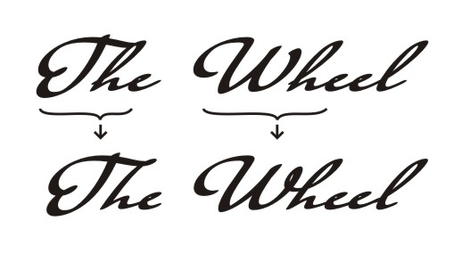 Demonstrates using ligature "Wh" and "Th" in handwriting font Taumfel